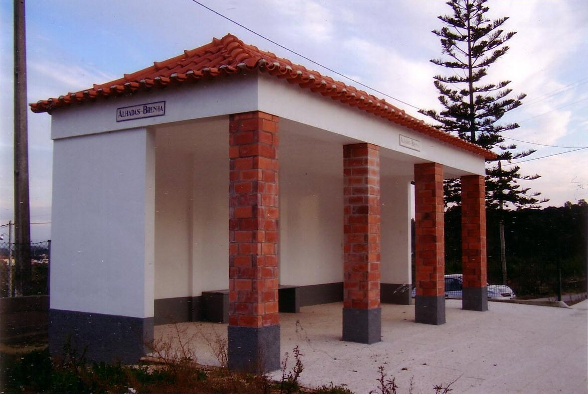 the flag stop Alhadas-Brenha of the Ramal da Figueira da Foz, Portugal